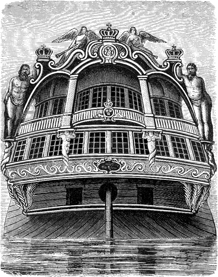 same as Image:Warship 2.gif in png-format